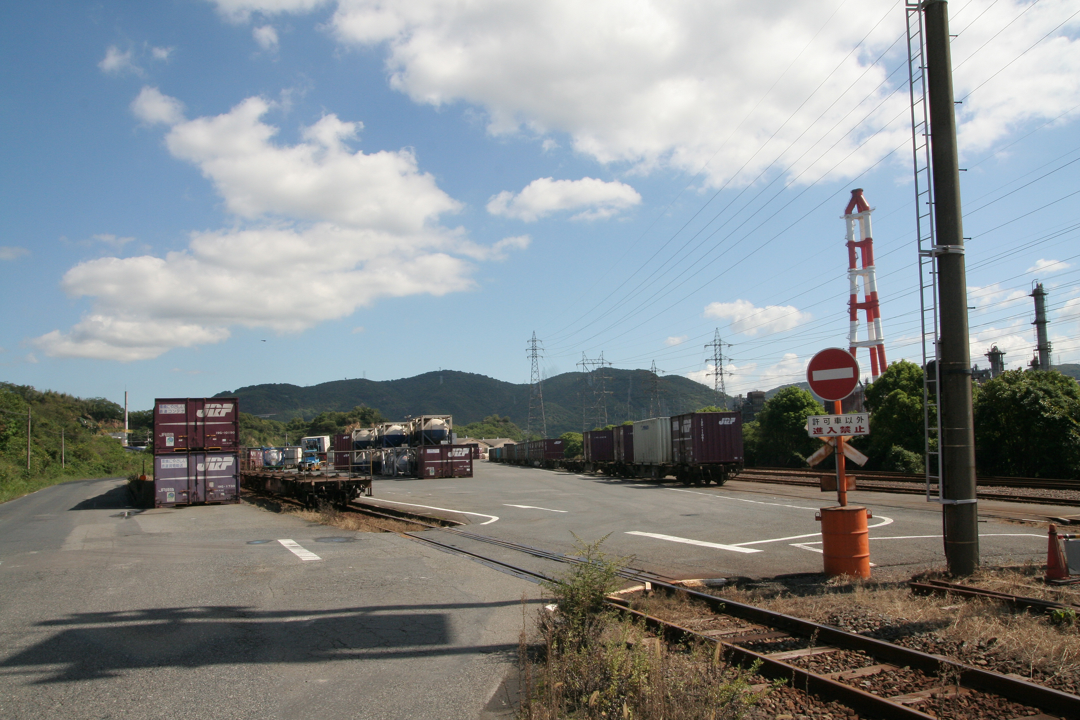 Mizushima Rinkai Railway Kōtō Line Higashi-Mizushima freight terminal